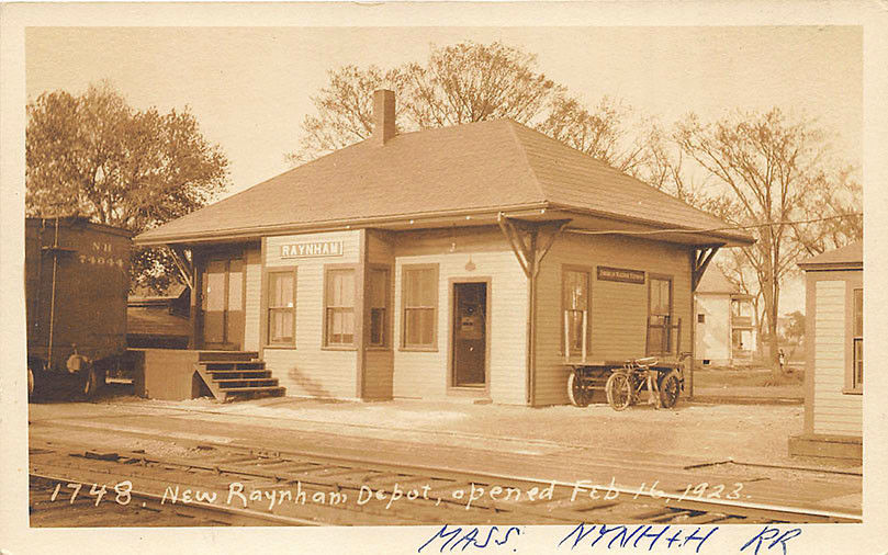 1923 divided back postcard of Raynham station